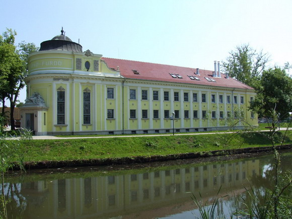 Building of the bath and spa "Árpád" in Békéscsaba